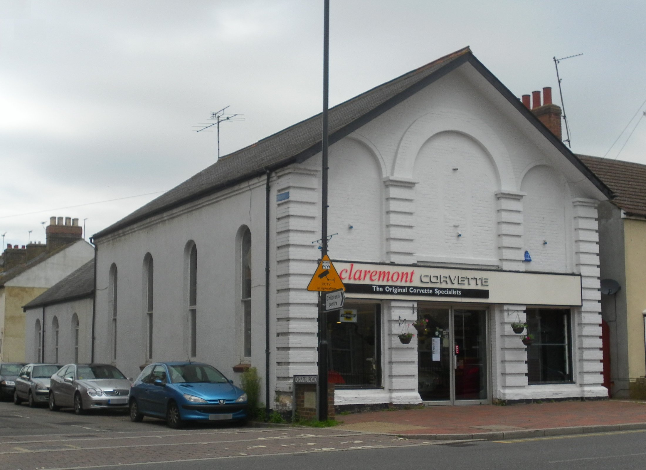 Former Primitive Methodist Chapel, Snodland, Borough of Tonbridge and Malling, Kent, England. Opened in the late 19th century and closed in the 1970s. Now in commercial use.